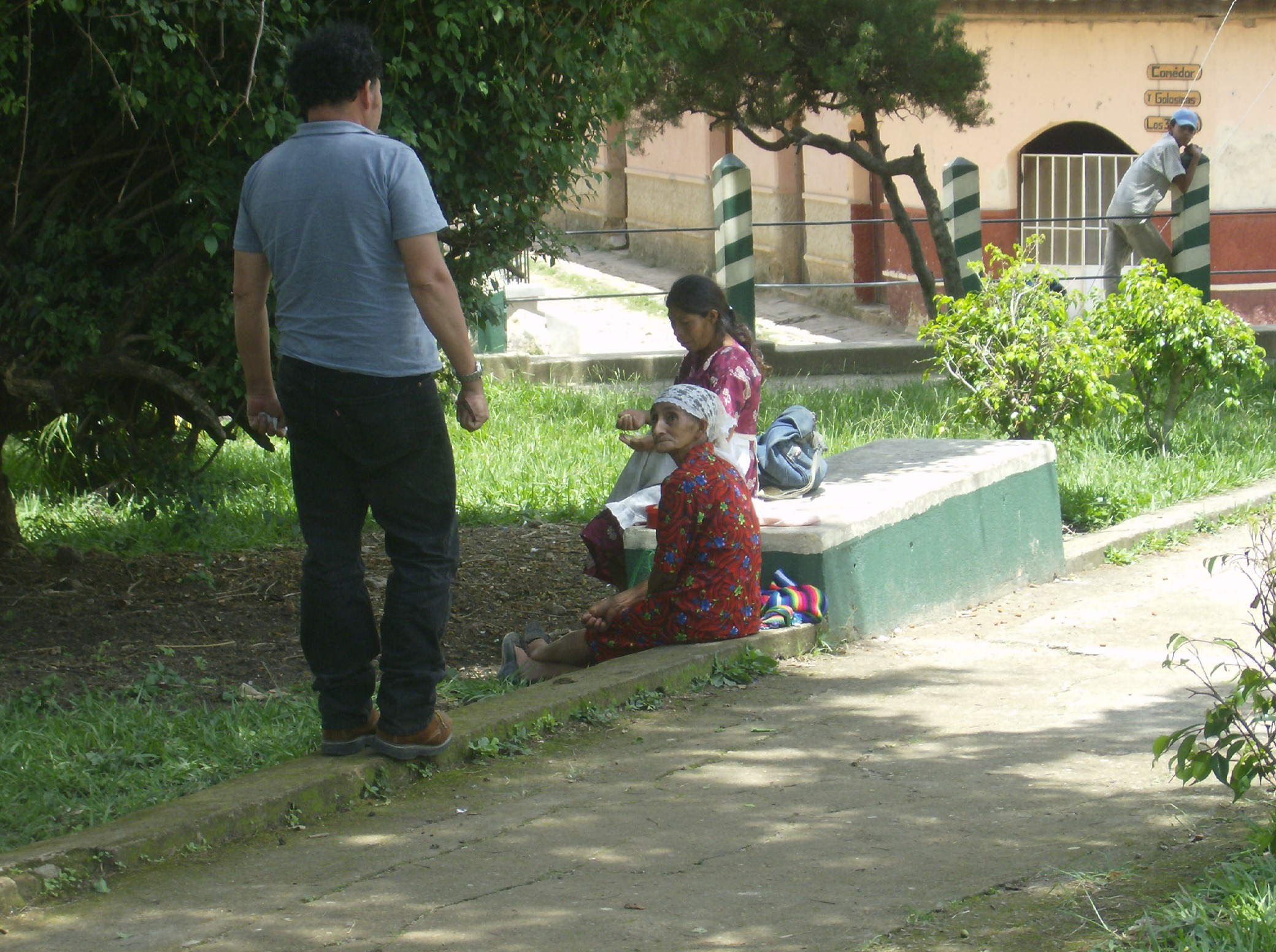 Erandique, municipality in the Honduran department of Lempira.